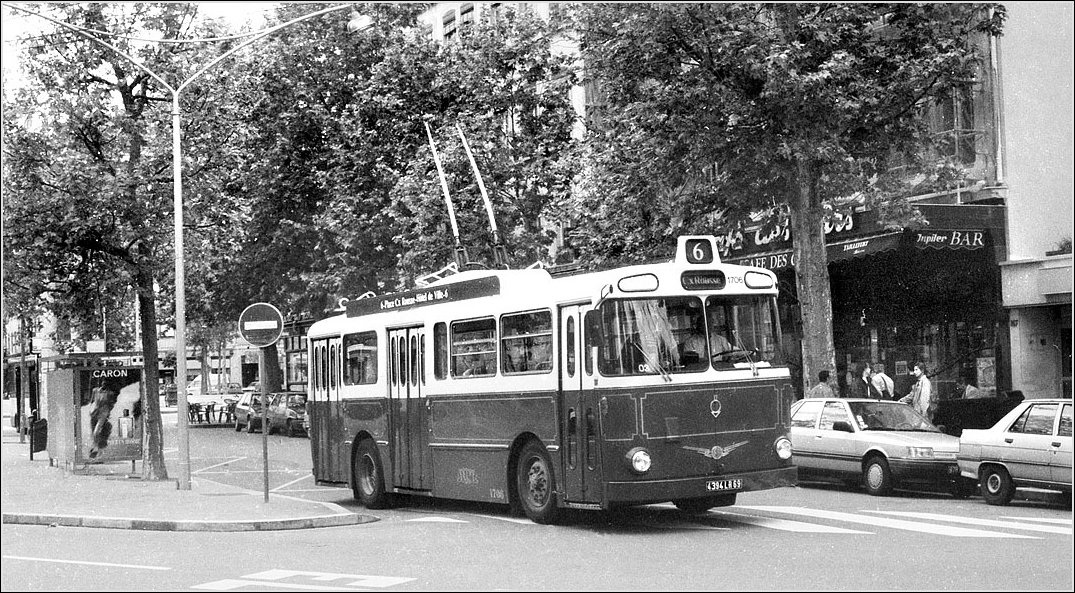 Lyon's 1965 BERLIET-VETRA VBH 85 number 1706 - which is now in the safe and tender care of AMITRAM at Marquette-lez-Lille in France - was photographed on its usual route 6 at Croix Rousse in 1996. One of these, number 1704, has found its way to Sandtoft. Being familiar with Lyon - my other half lived there when we met - I miss these period pieces. TCL had kept them running for thirty years and presented them in a smart maroon livery unlike the rest of the fleet which was, at that time, in transition from an orange, white and brown scheme into all-over white with a red and a black stripe. The interior of the vehicles had the feel of a much earlier era compared to contemporary British buses. Route 6 runs from Hotel de Ville to Croix Rousse through one of the oldest parts of the city up steep inclines through narrow streets. I never missed an opportunity to ride the service and even with the new replacement trolleys introduced in the late 1990s the trip is well worth seeking out if you find yourself in this impressive city.